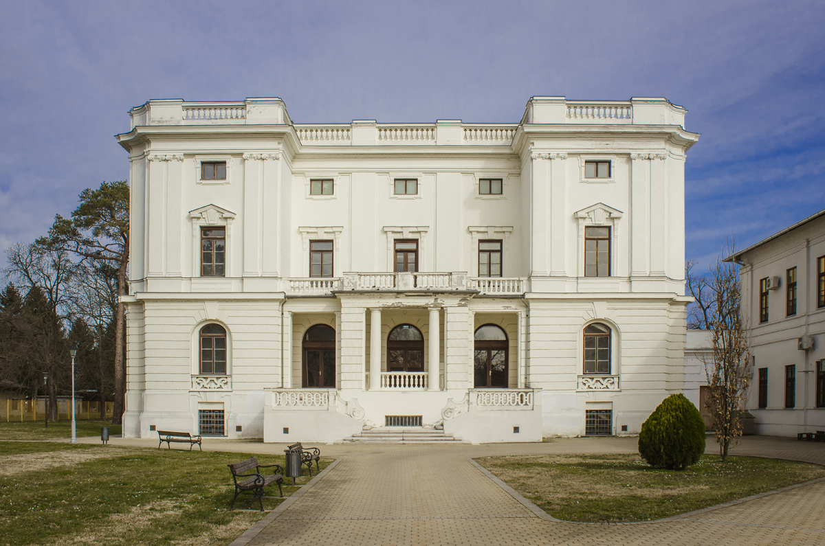 Belišće 4